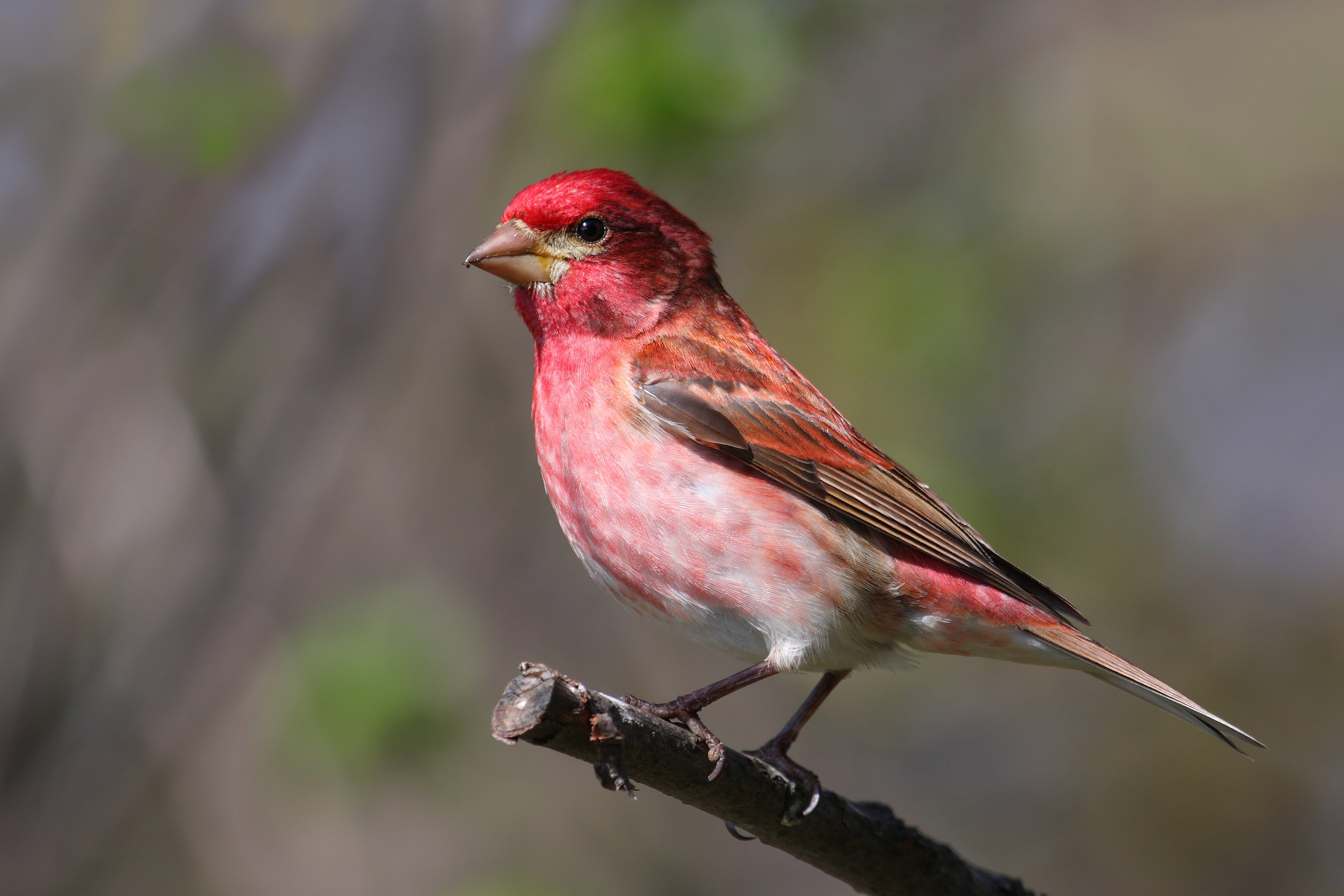 Purple Finch (Carpodacus purpureus) male, Cap Tourmente National Wildlife Area, Quebec, Canada.